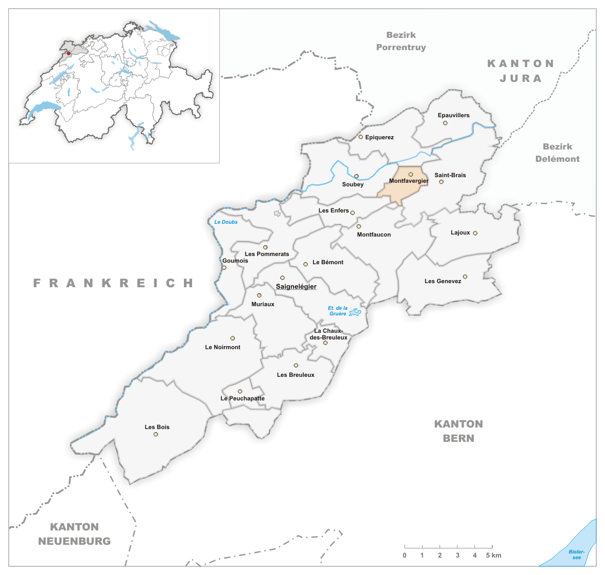 Municipality Montfavergier